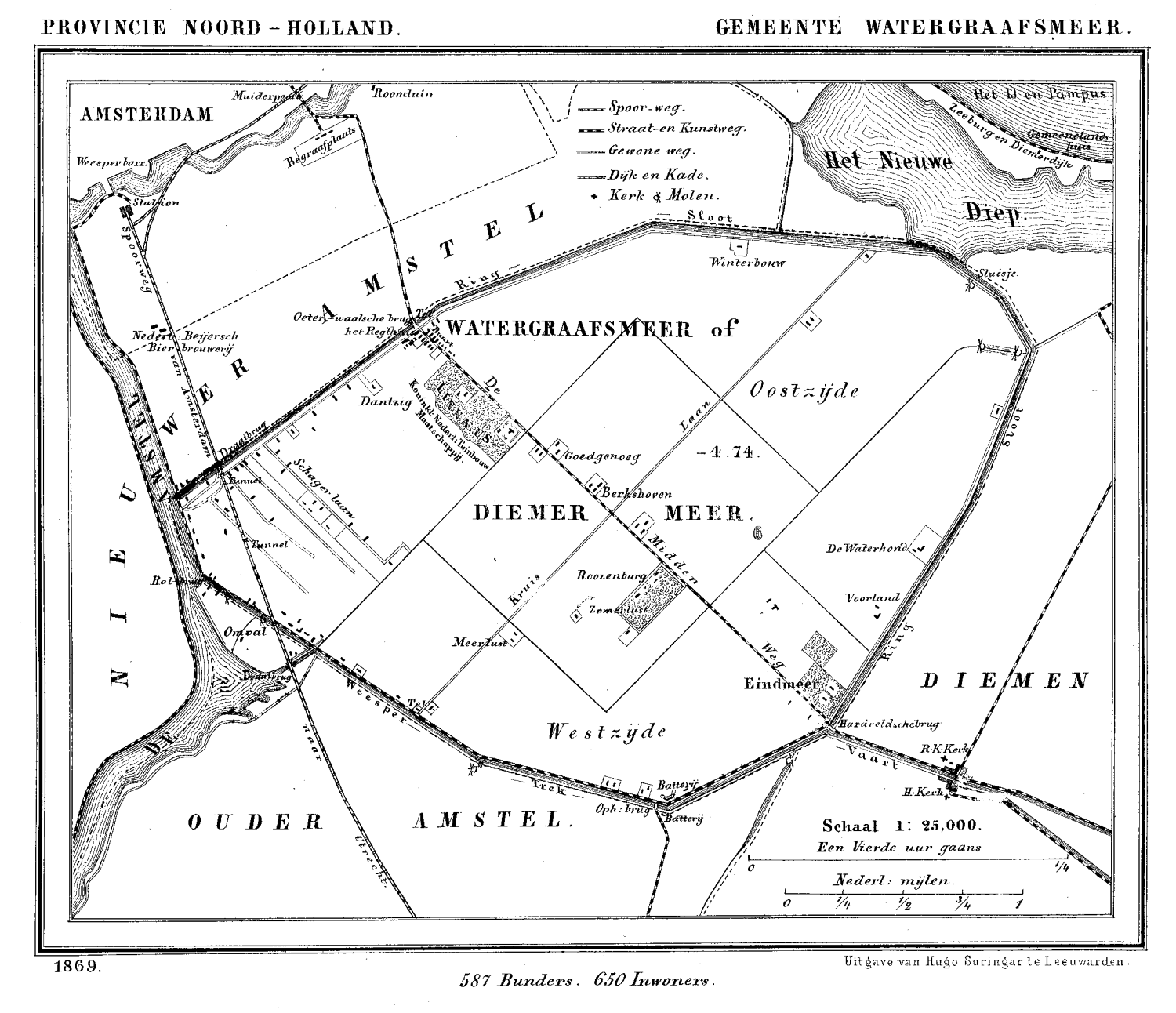 Historic map of Watergraafsmeer (now part of Amsterdam), North Holland, the Netherlands